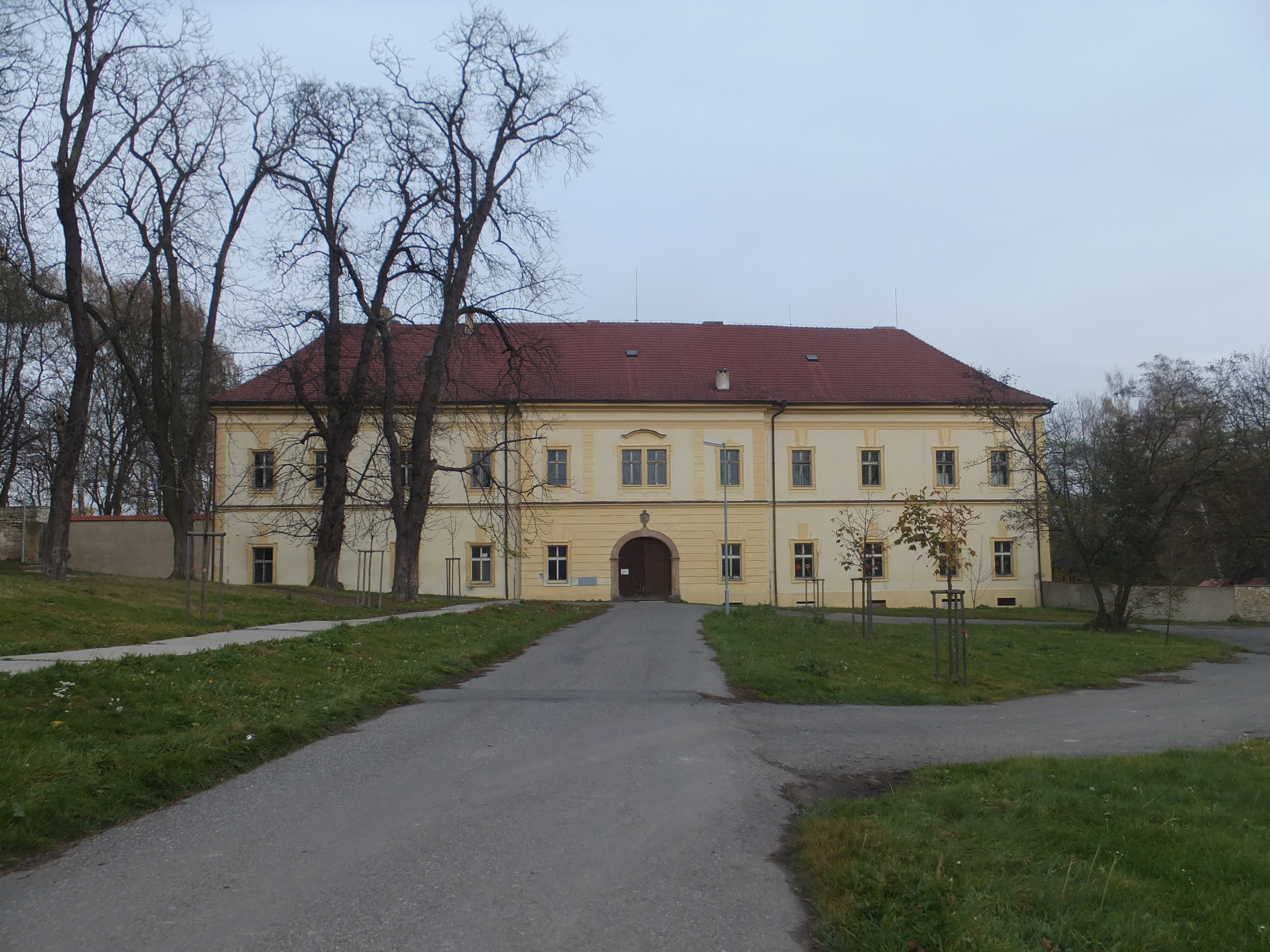 The western view of the castle in Mšec